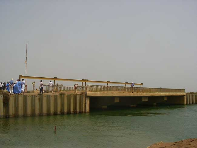 Aftout Essahli Project (Mauritania)